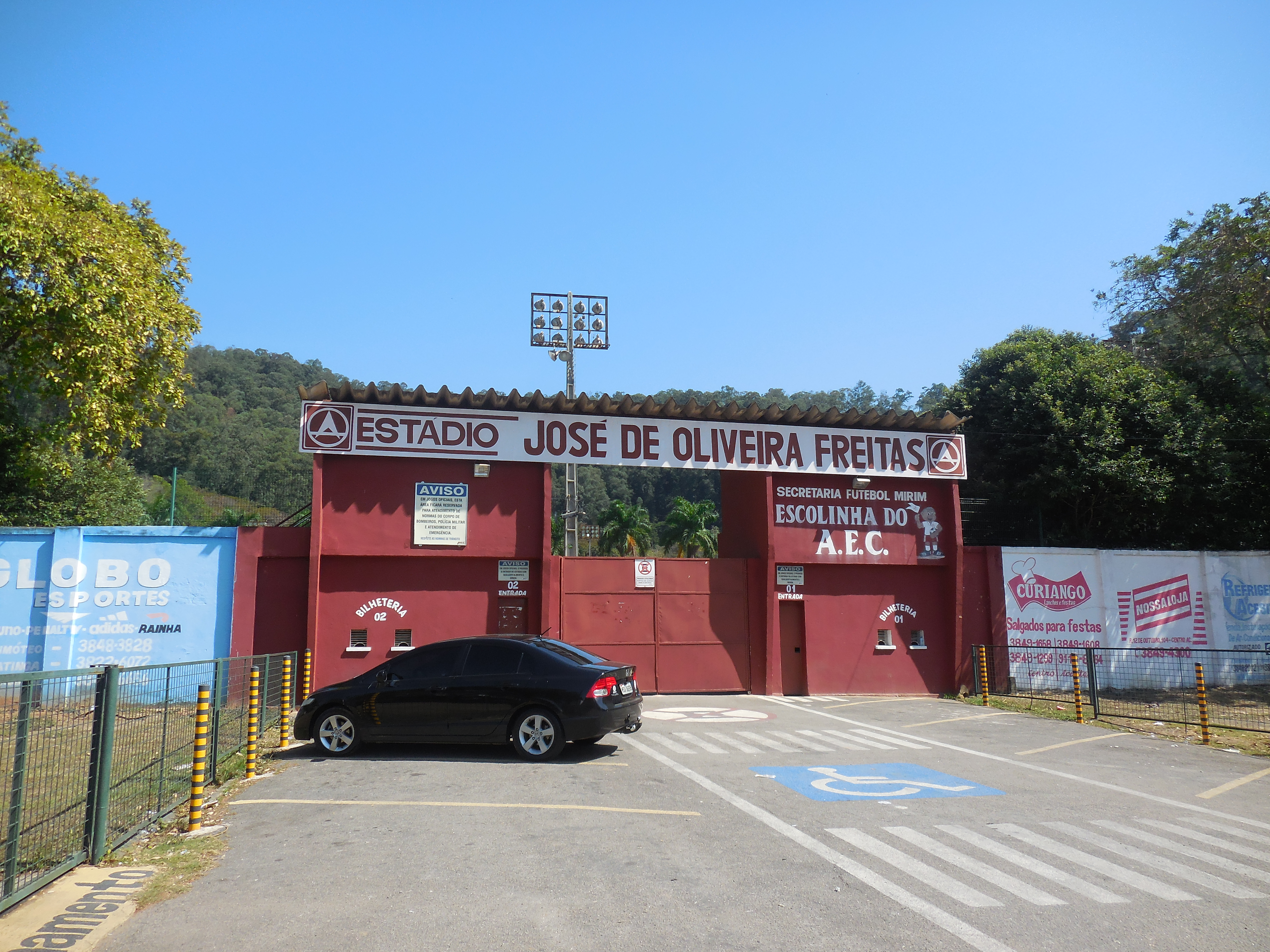 Entrance of the José de Oliveira Freitas stadium, in Timóteo, Minas Gerais, Brazil.